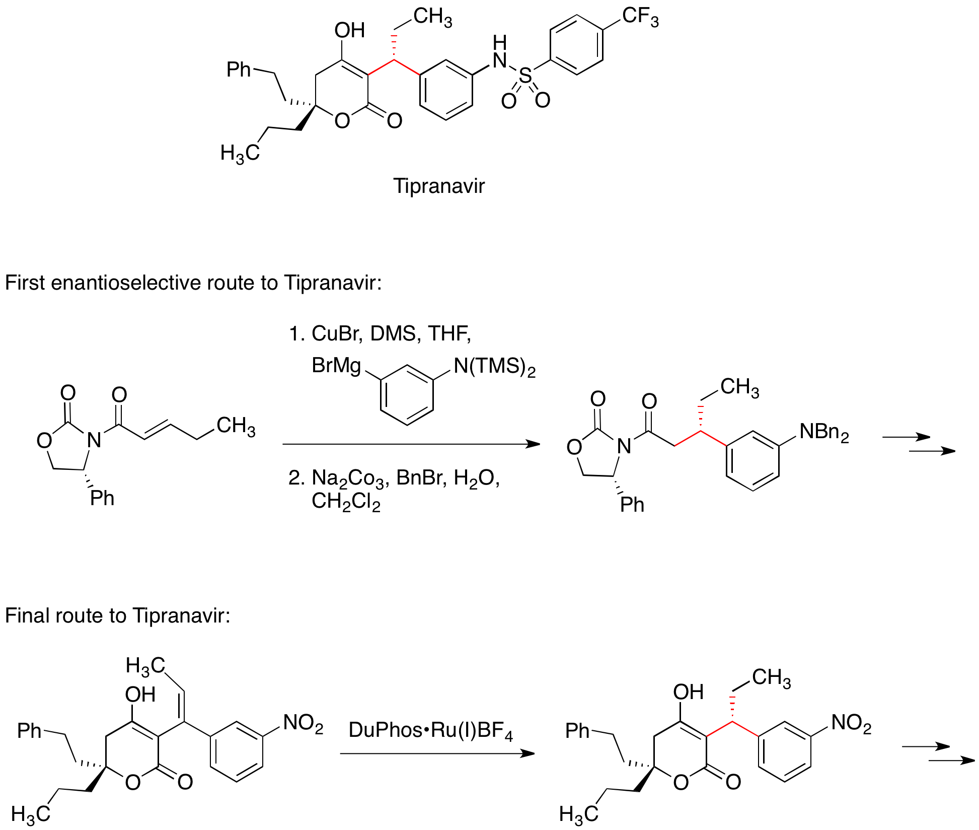 Chemdarw